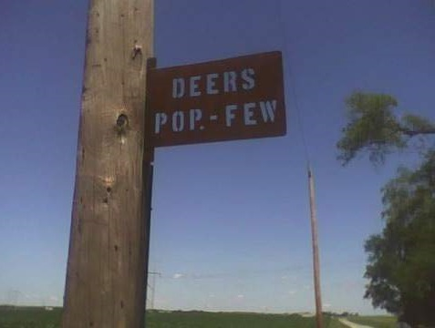 Interesting sign in Deers, IL